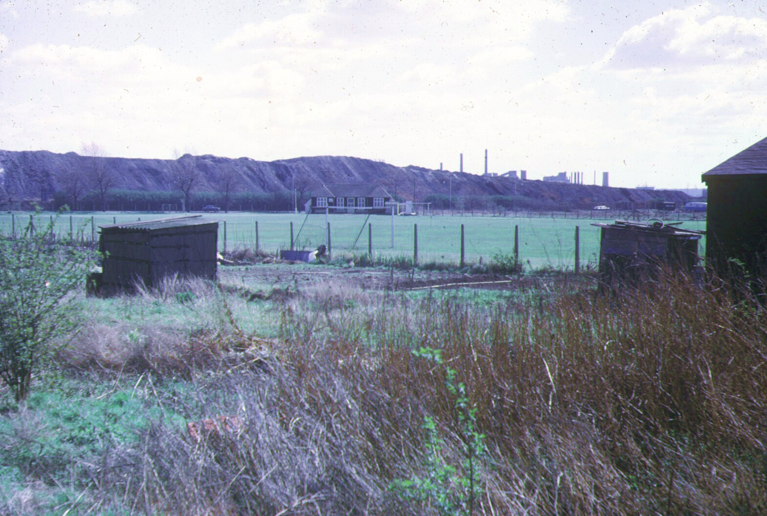 Beckton Alps and Beckton Gasworks from the A13 in 1973 from a colour slide by Peter Land